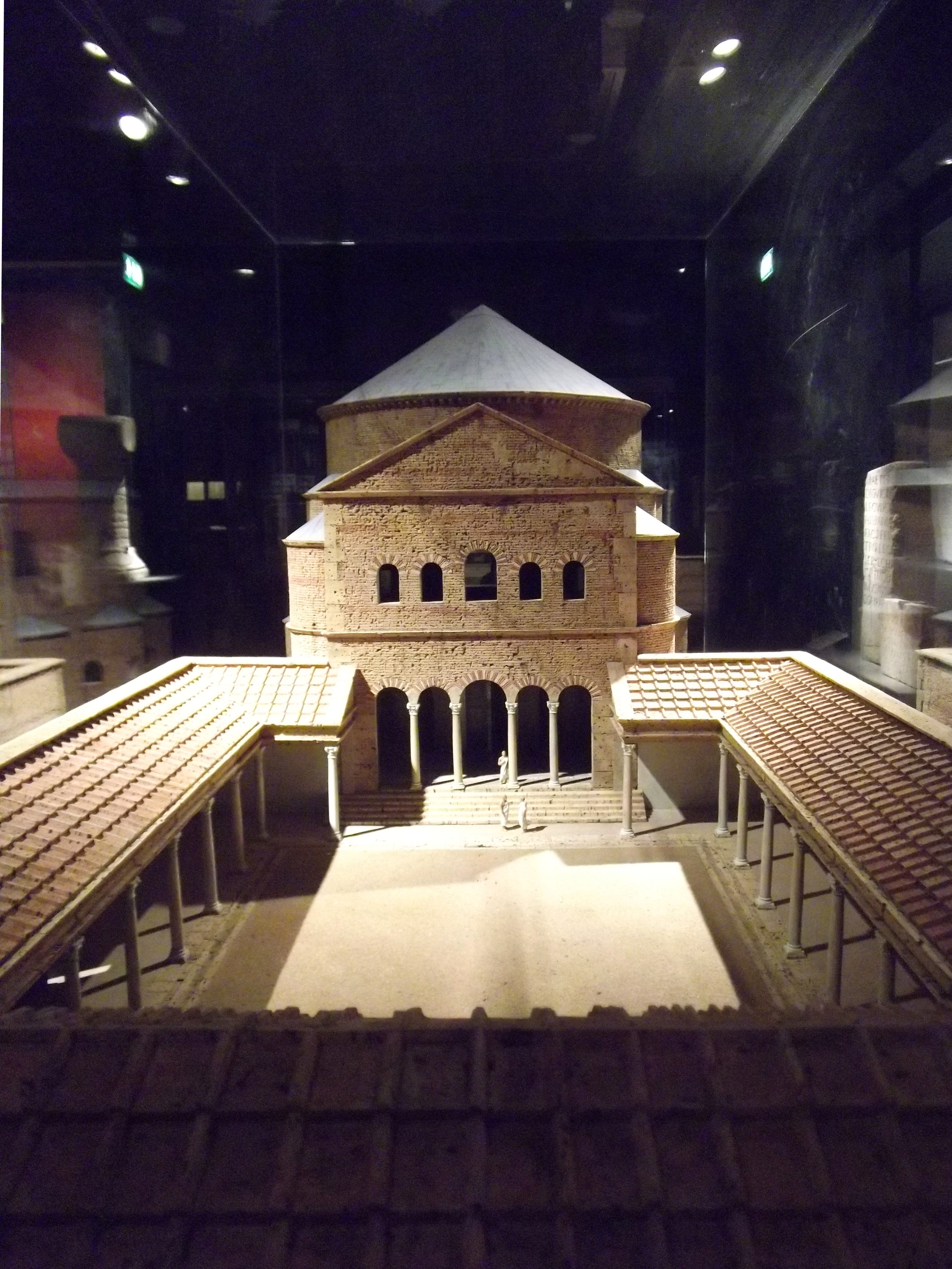 Front view of a model of St. Gereon at Cologne Archaeological Zone. The model represents the church's condition of the 5th century. Model built by Atelier Dieter Cöllen GmbH (2008)